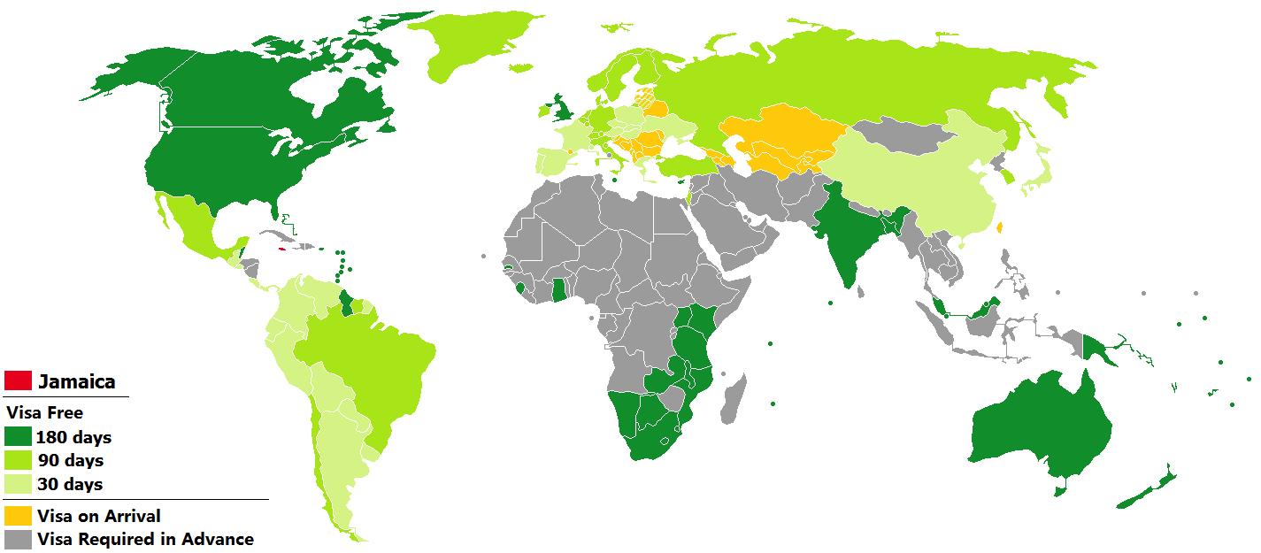 Visa policy of Jamaica Jamaica Visa-free - 180 days Visa-free - 90 days Visa-free - 30 days Visa on arrival Visa required in advance